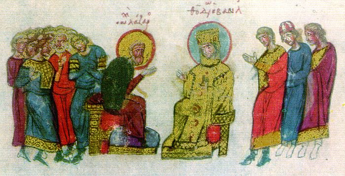 Empress Theodora and monk Lazar (from Skylitzis Chronicle, fol. 50va)